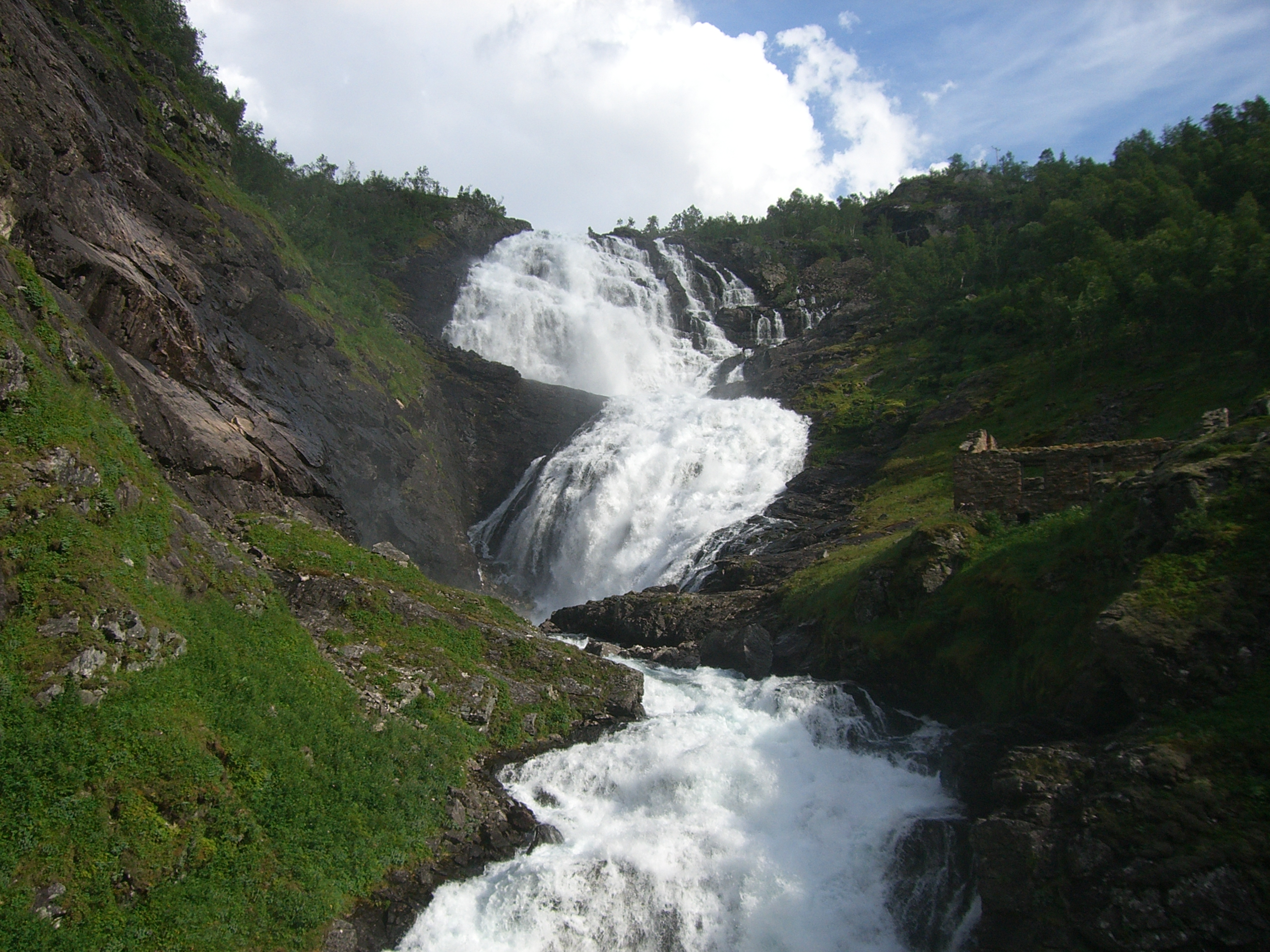 Kjosfossen Falls along the Flåmsbana in Norway.